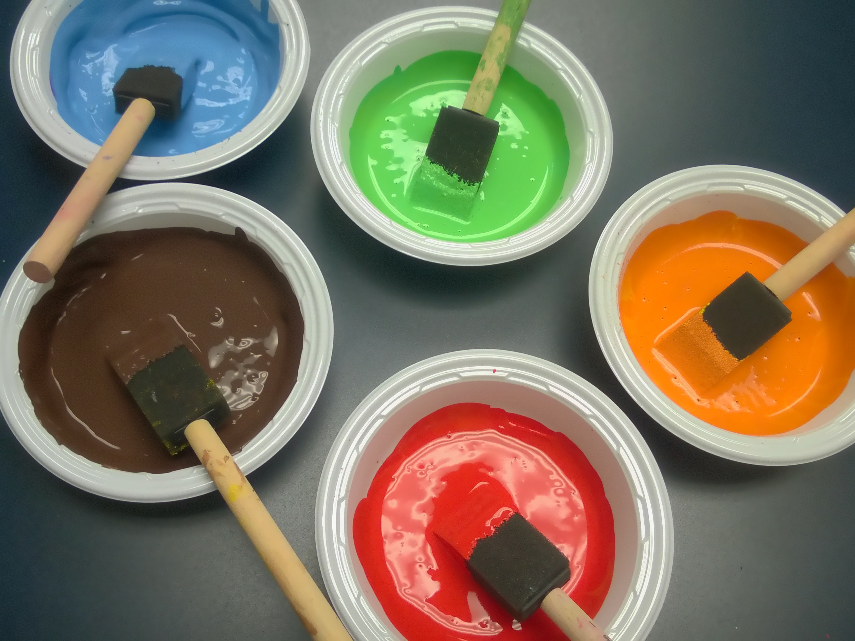 White plastic bowls filled with paint in blue, green, orange, red, and brown, each with a sponge brush in it.